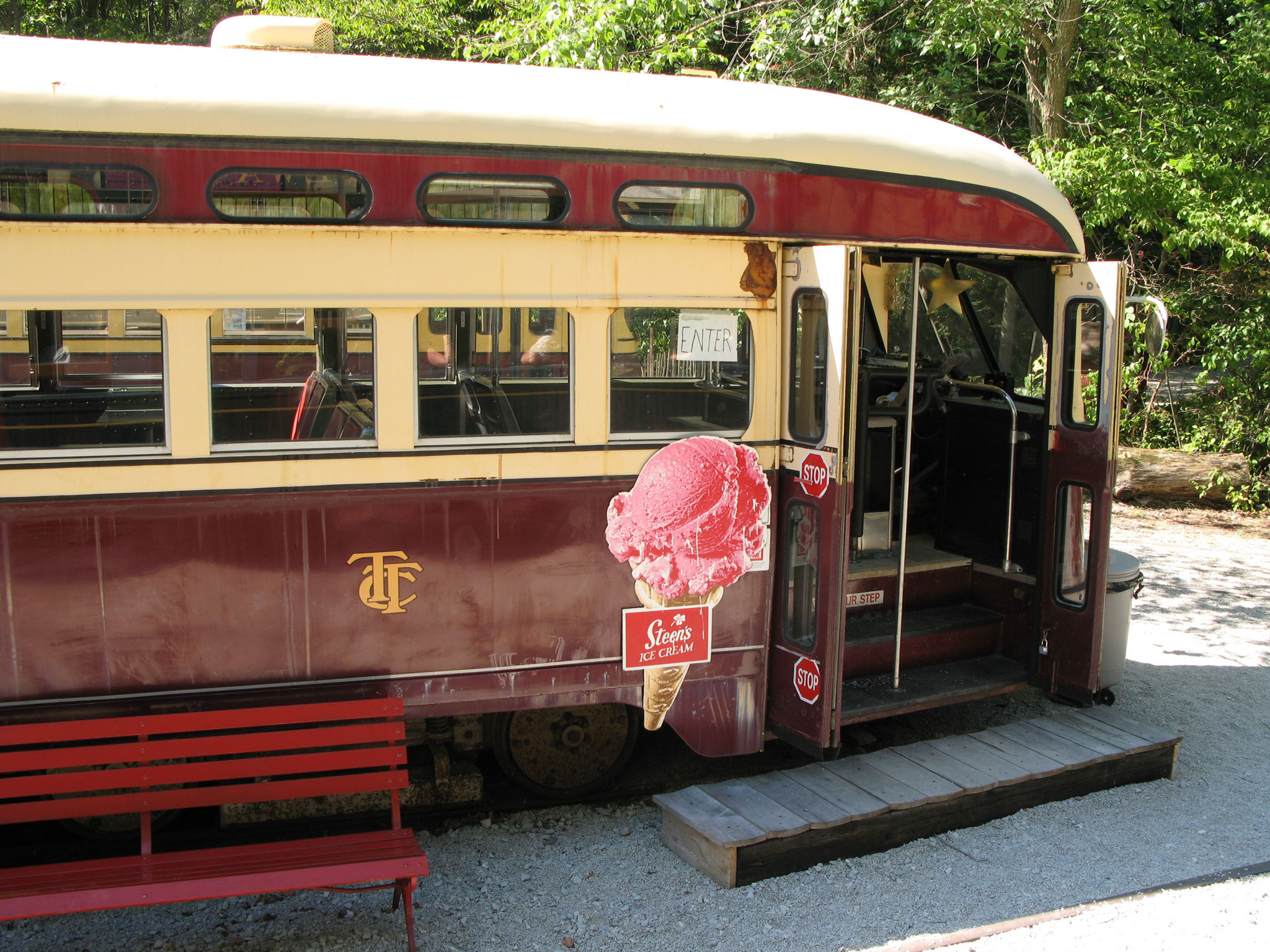 An ex-Toronto Transit Commission PCC streetcar acting as an ice cream shop at the Halton County Radial Railway museum near Rockwood, Ontario, Canada.